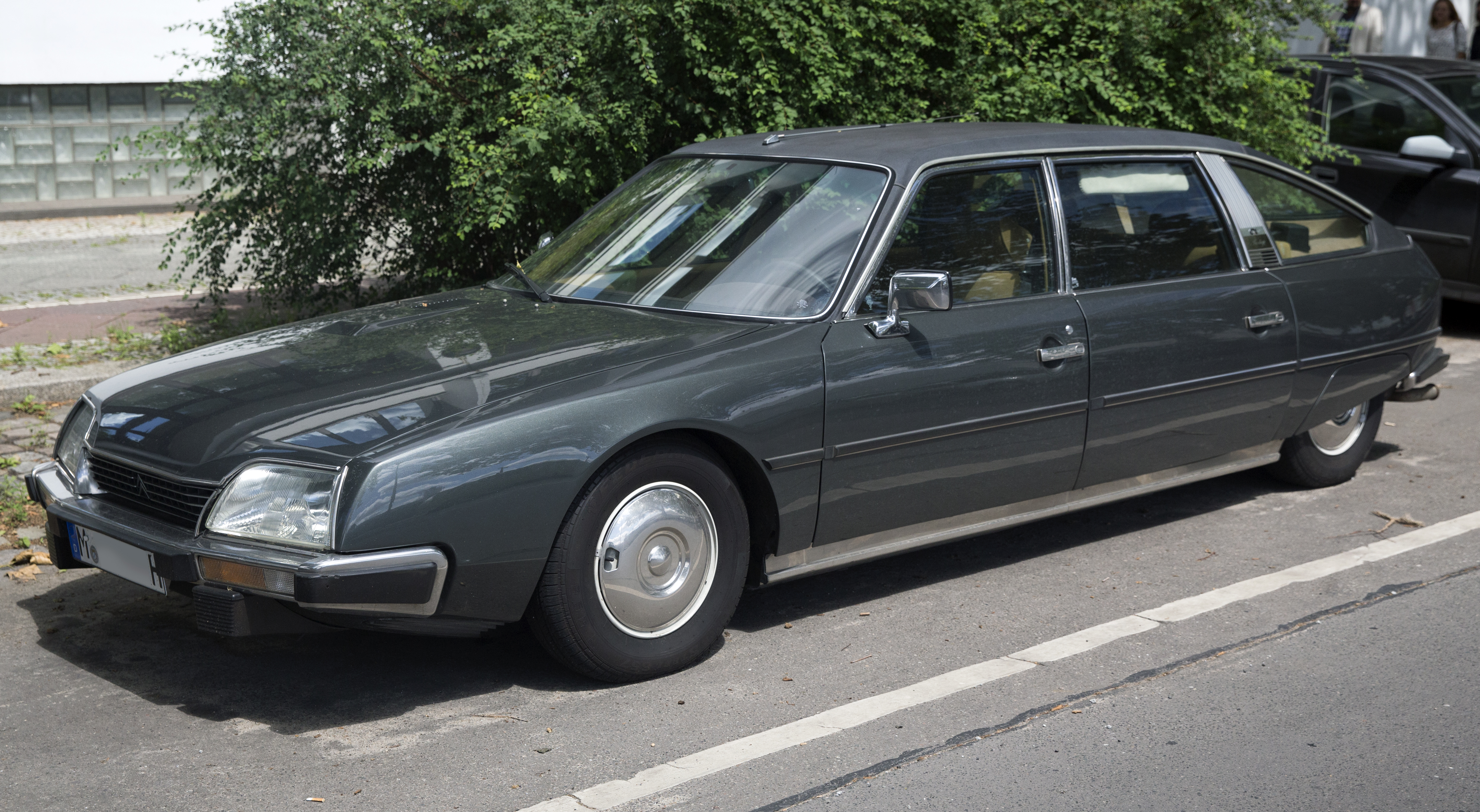 A 1978 Citroën CX Prestige C-matic near Berlin's Classic Remise.